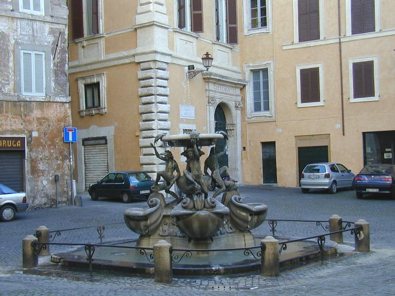 Rome, Piazza Mattei: Costaguti palace and fountain of Turtles